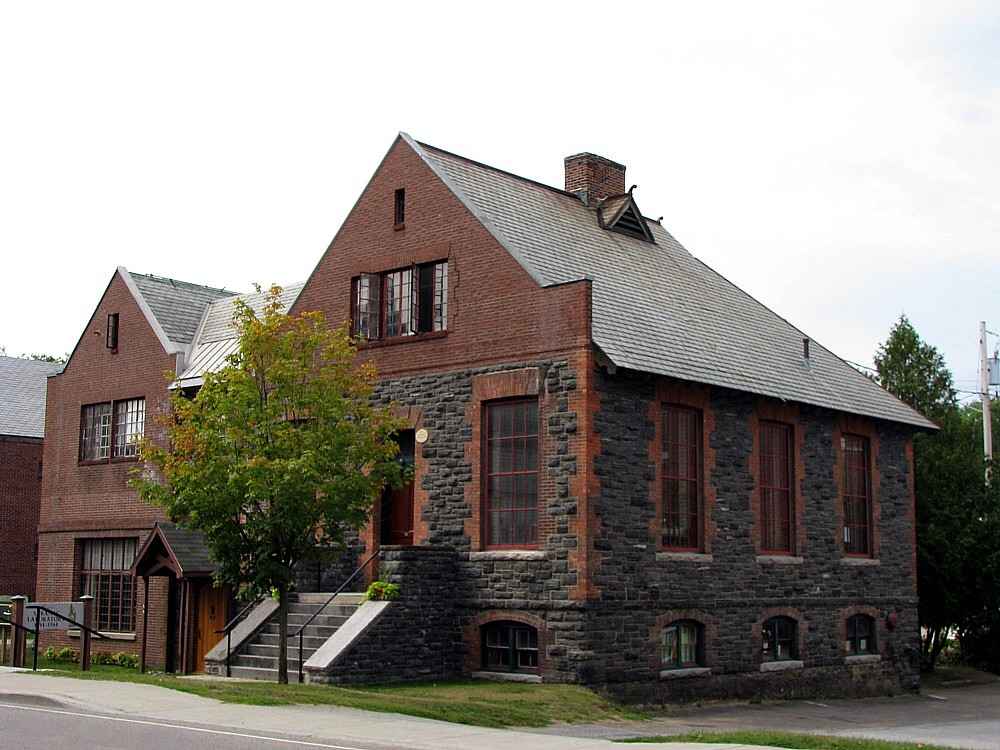 Saranac Laboratory, Saranac Lake, New York, 8-21-2010 Built by Dr. E.L. Trudeau, it was the first laboratory in the U.S. for the study of tuberculosis. It was the predecessor to today's Trudeau Institute. It is now used for the offices and museum of Historic Saranac Lake.